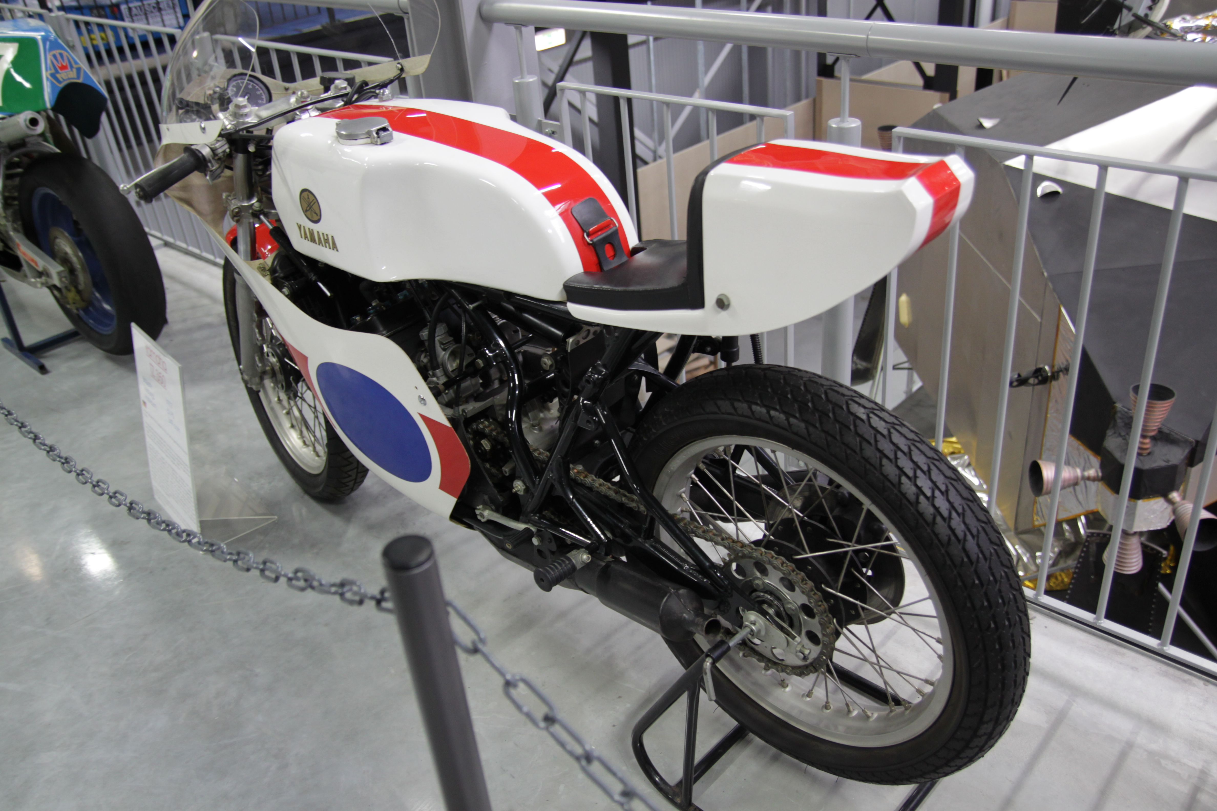 Motorcycle Yamaha TZ 350, 1977, 349 ccm, 63 HP